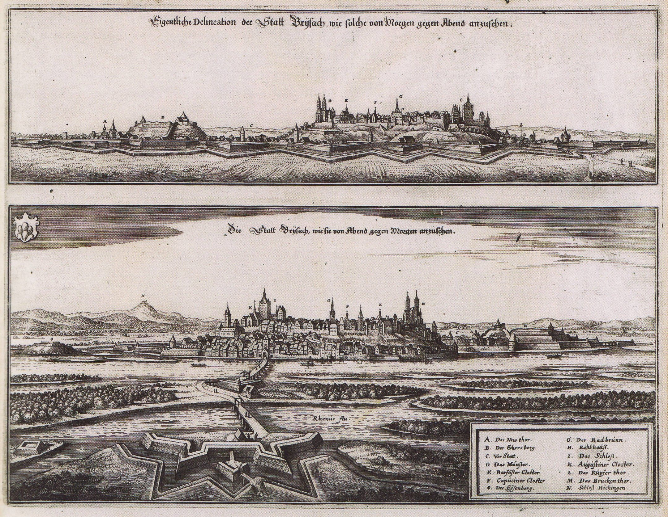 Historical view of Breisach and the Breisach Minster; on top the view from east, below the view from west; copperplate engraving by Matthäus Merian, 1644.